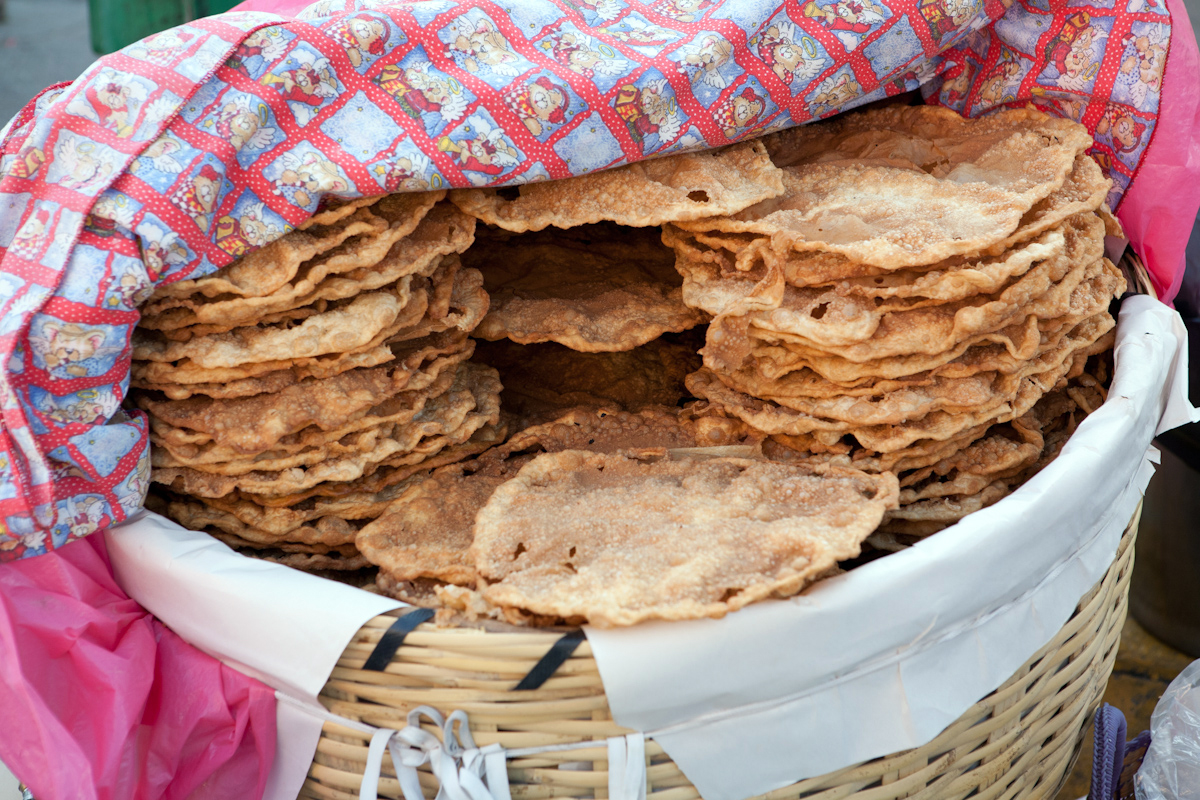 Buñuelos, a popular food during winter in Mexico